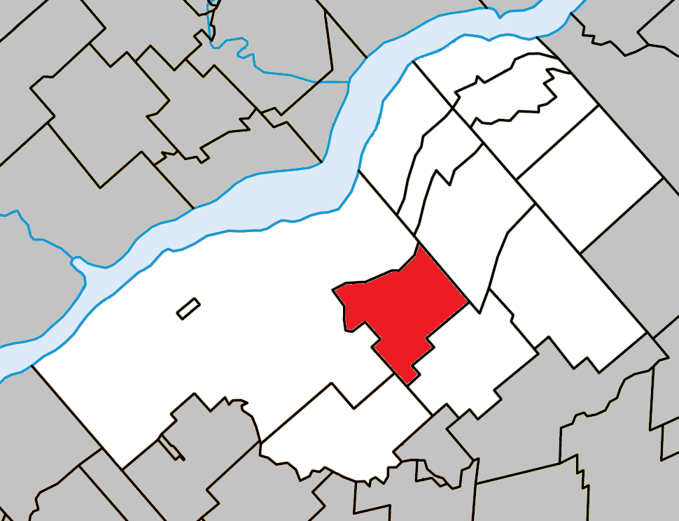 Location of Sainte-Marie-de-Blandford, Quebec within Bécancour Regional County Municipality.